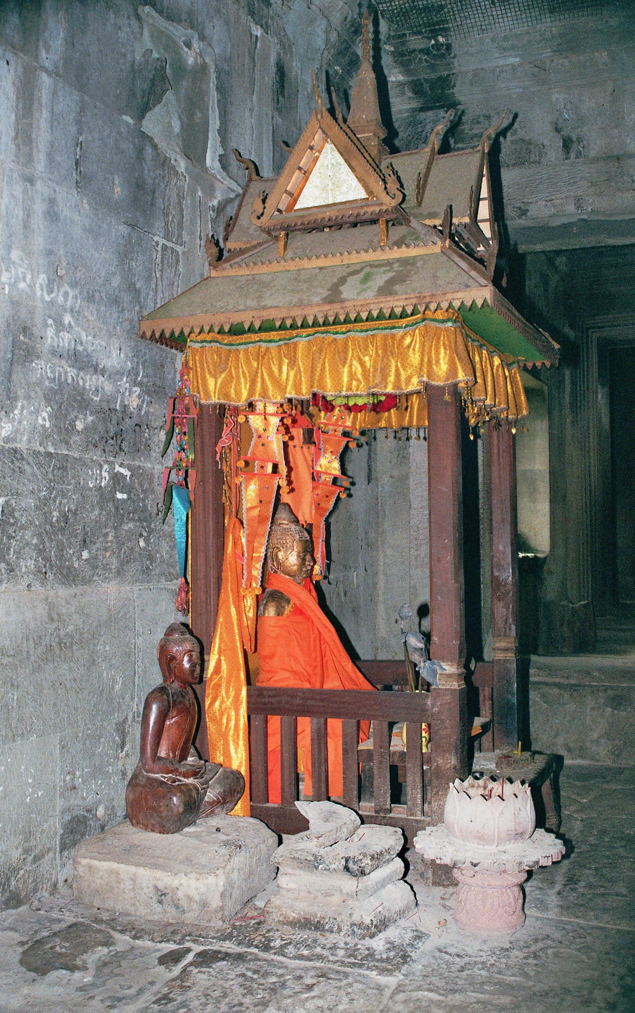 Small Buddhist altar in the Hall around Angkor Wat's main temple.